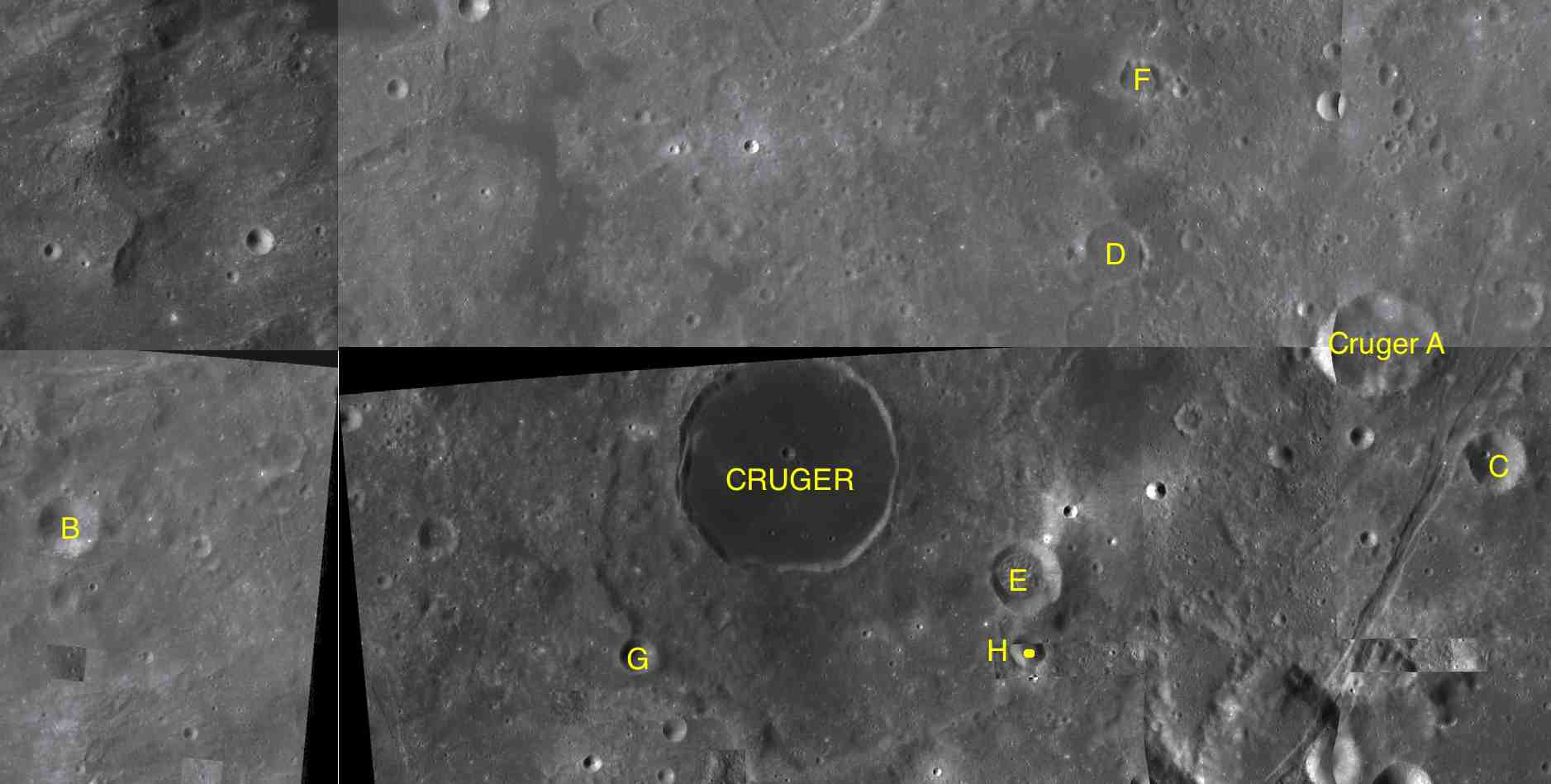 Parts of the charts LAC-73, LAC-74, LAC-91, LAC-92 used for the presentation